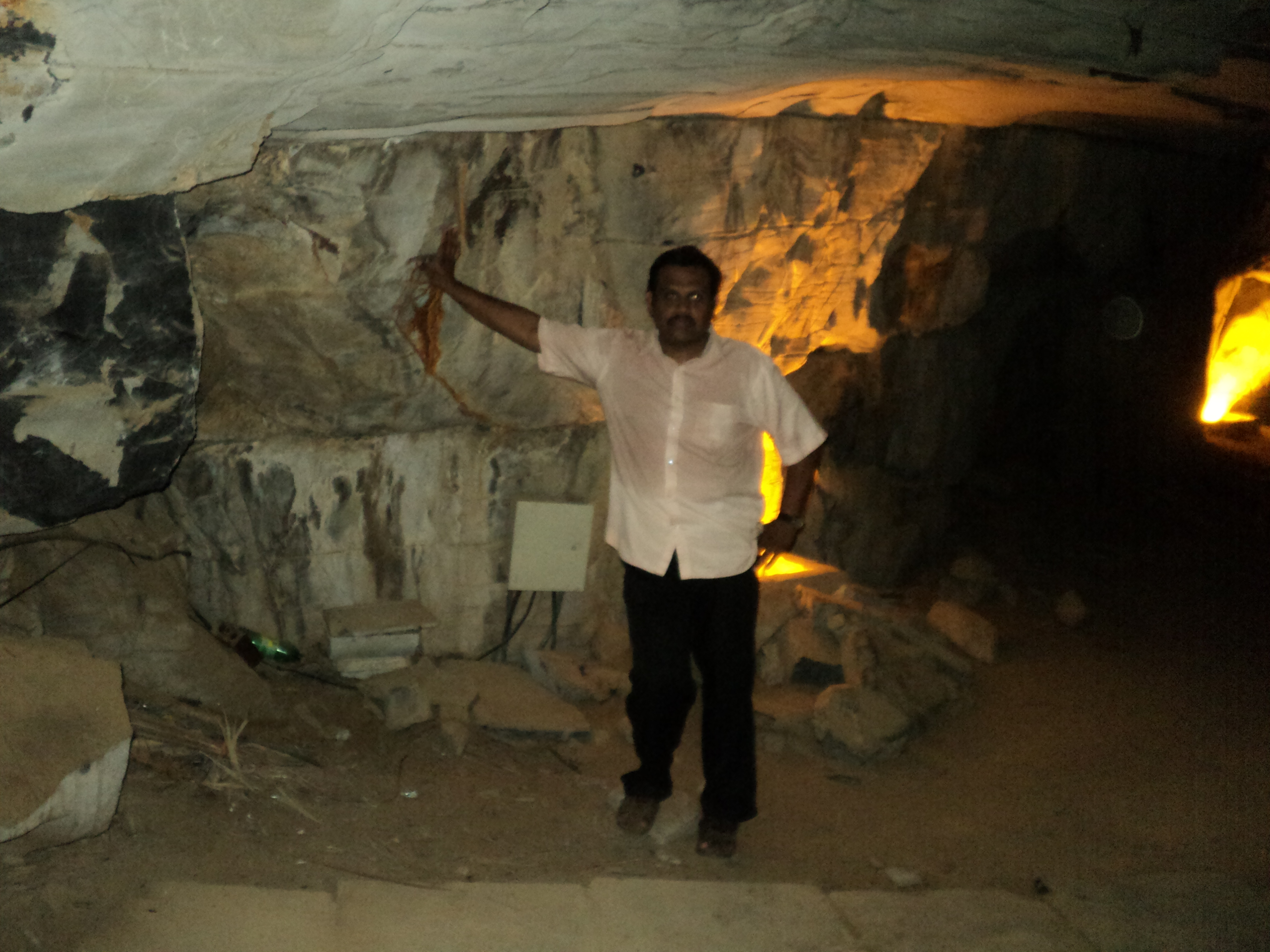 A Visitor inside the Belum cave